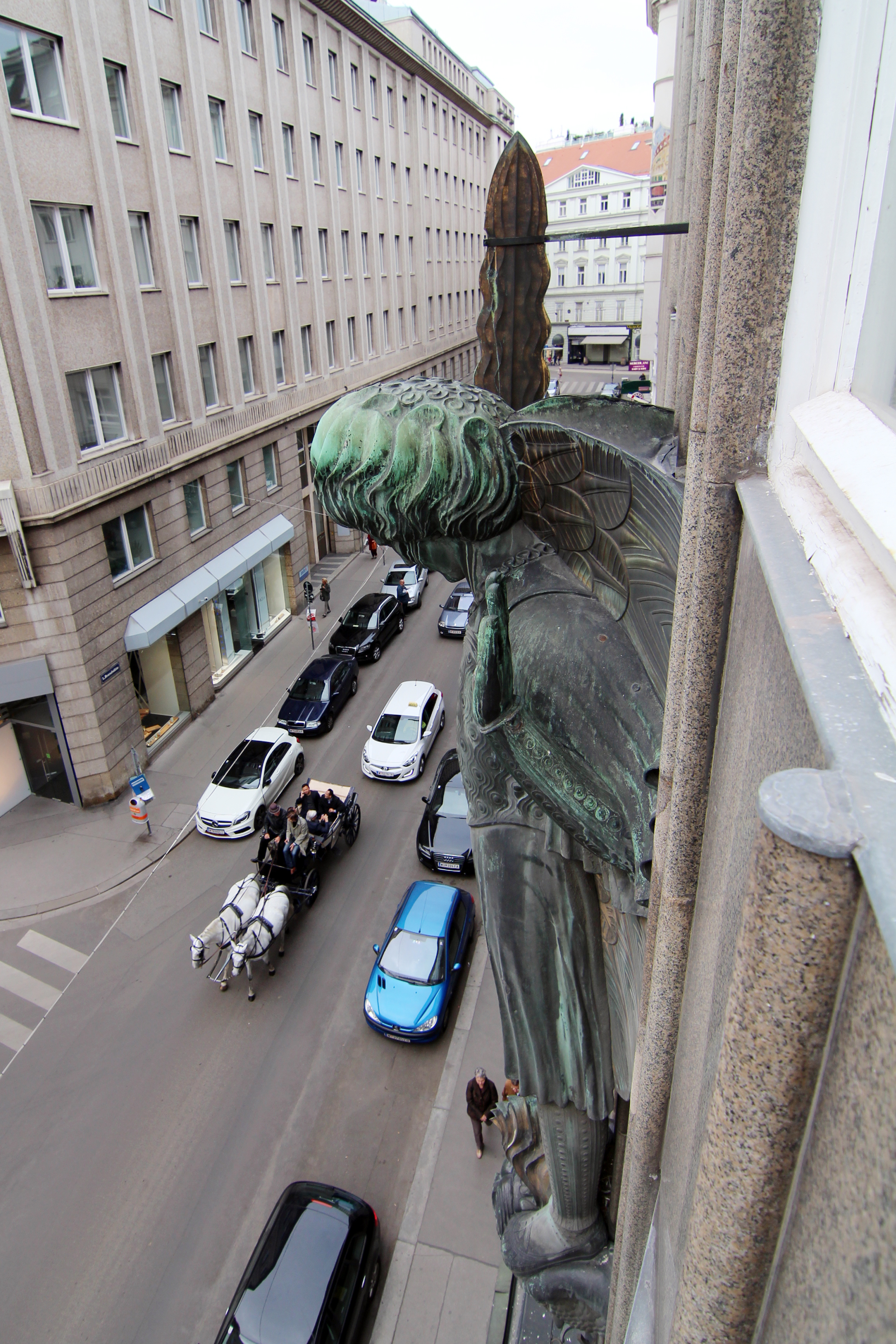 Zacherlhaus Dieses Bild wurde anlässlich des österreichischen Tags des Denkmals 2013 in Wien eingereicht.